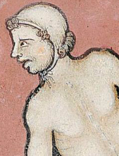 Man in coif